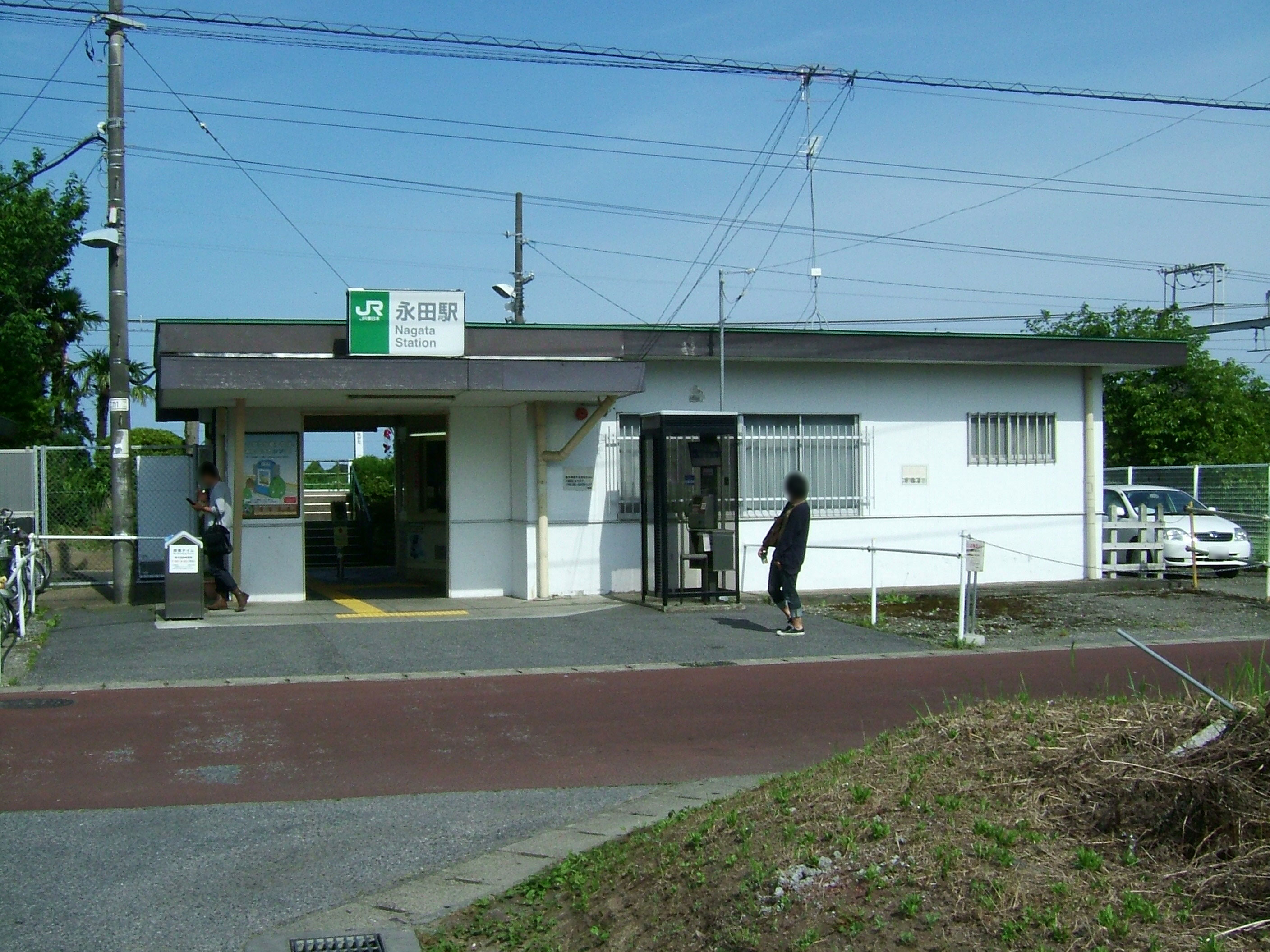 Nagata Station building (East Japan Railway Sotobō Line)